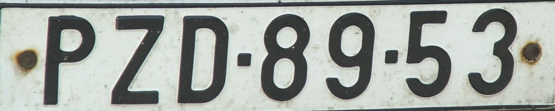 Czechoslovakian registration plate from PZ = Prague-West District, 1960-1986